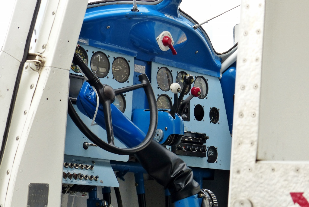 The cockpit of Canadian Noorduyn Norseman CF-GSR as seen from the left (port) cockpit door. CF-GSR is a Norseman Mk V, owned and operated by the Canadian Warplane Heritage museum in Hamilton, Ontario, Canada. Photographed at the Brantford Community Airshow, 30 August 2017.